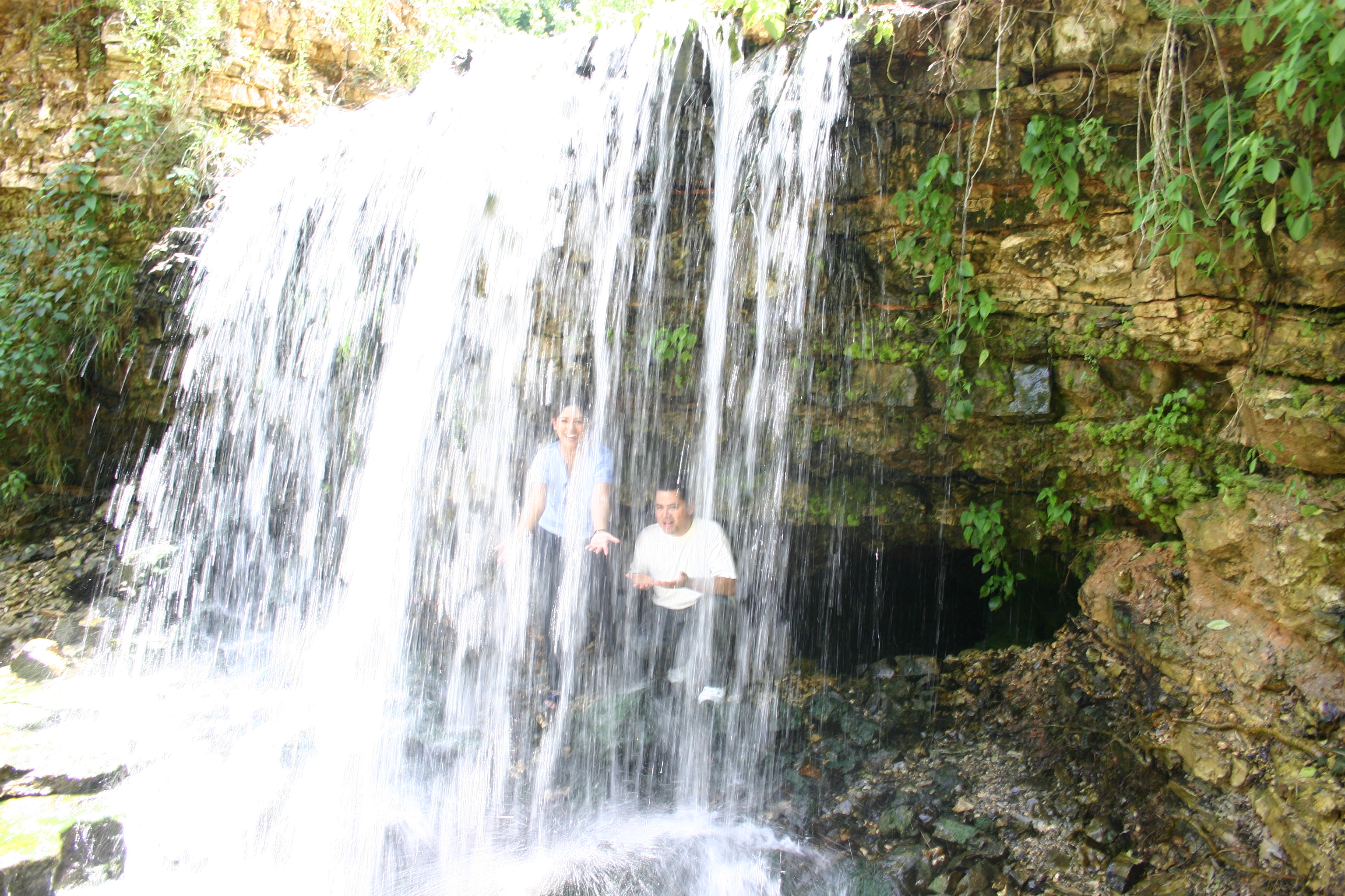 Author: Michael Krewson